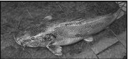 Specimen of Steindachneridion doceanum. Partial map of Brazil showing the localization of the Doce River basin. The dot represents the collection location (Piranga River) and the asterisk the impacted by the waste discharge.